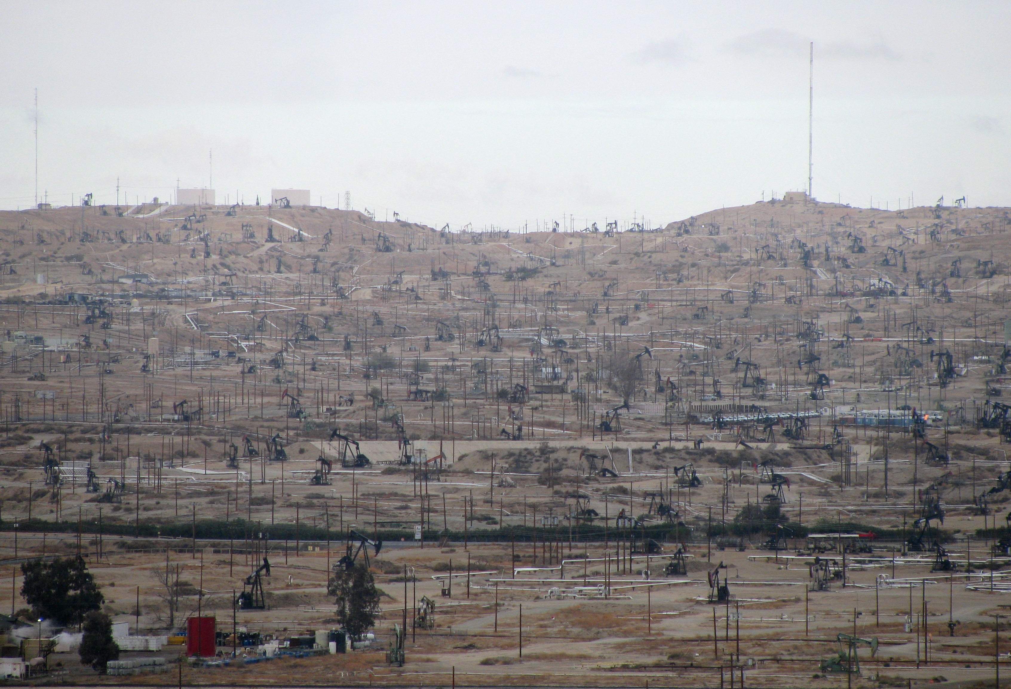 overview of the Kern River field from Panorama Park; photo by self, today, November 21, 2009, GFDL/equiv